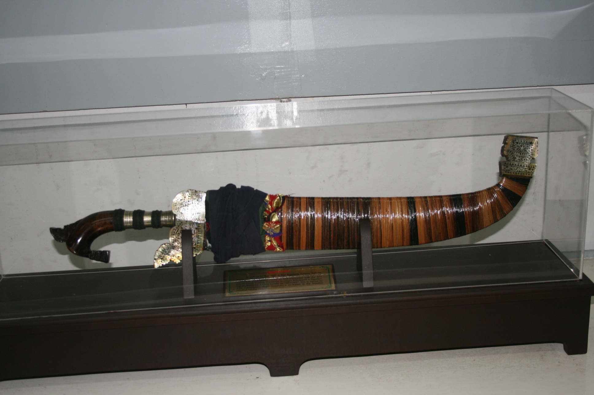 A Barong previously owned by Abu Sayaff Commander Mujib Susukan. It was seized on May 7, 2000 in Barangay Bandang, Talipao, Sulu by elements of Taskforce Sultan (104th brigade), 1st Infantry Division of the Philippine Army under then Col. Romeo P. Tolentino during its first encounter in the attempt to rescue 19 foreign hostages kidnapped in Sipadan, Sabah, Malaysia. Now on Display at the Philippine Military Academy Museum